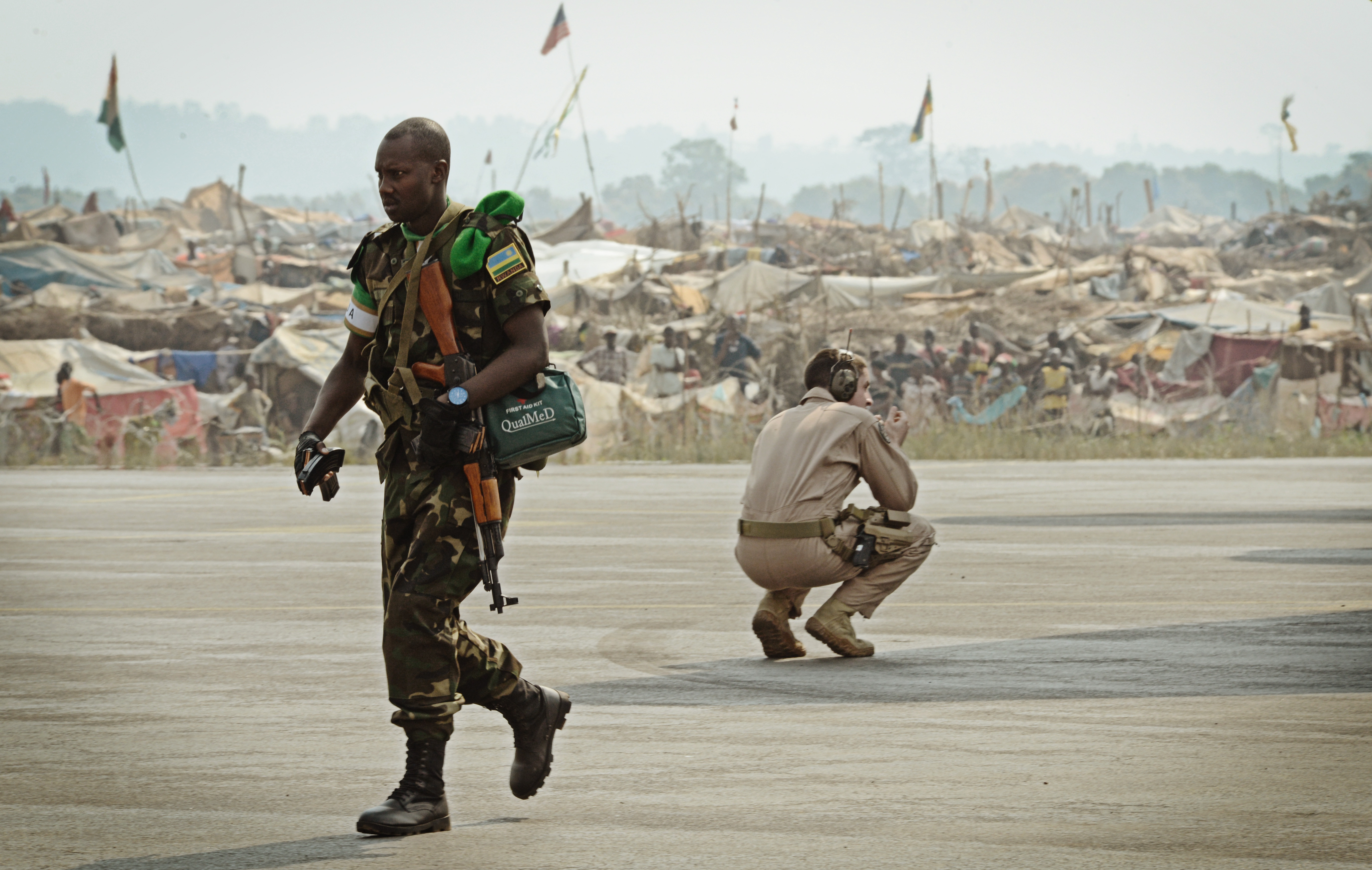 A Rwandan soldier, left, exits a U.S. Air Force C-17 Globemaster III aircraft near a refugee camp full of displaced residents at Bangui M'Poko International Airport in the Central African Republic Jan. 19, 2014. U.S. forces were dispatched to provide airlift assistance to multinational troops in support of an African Union effort to quell violence in the Central African Republic.